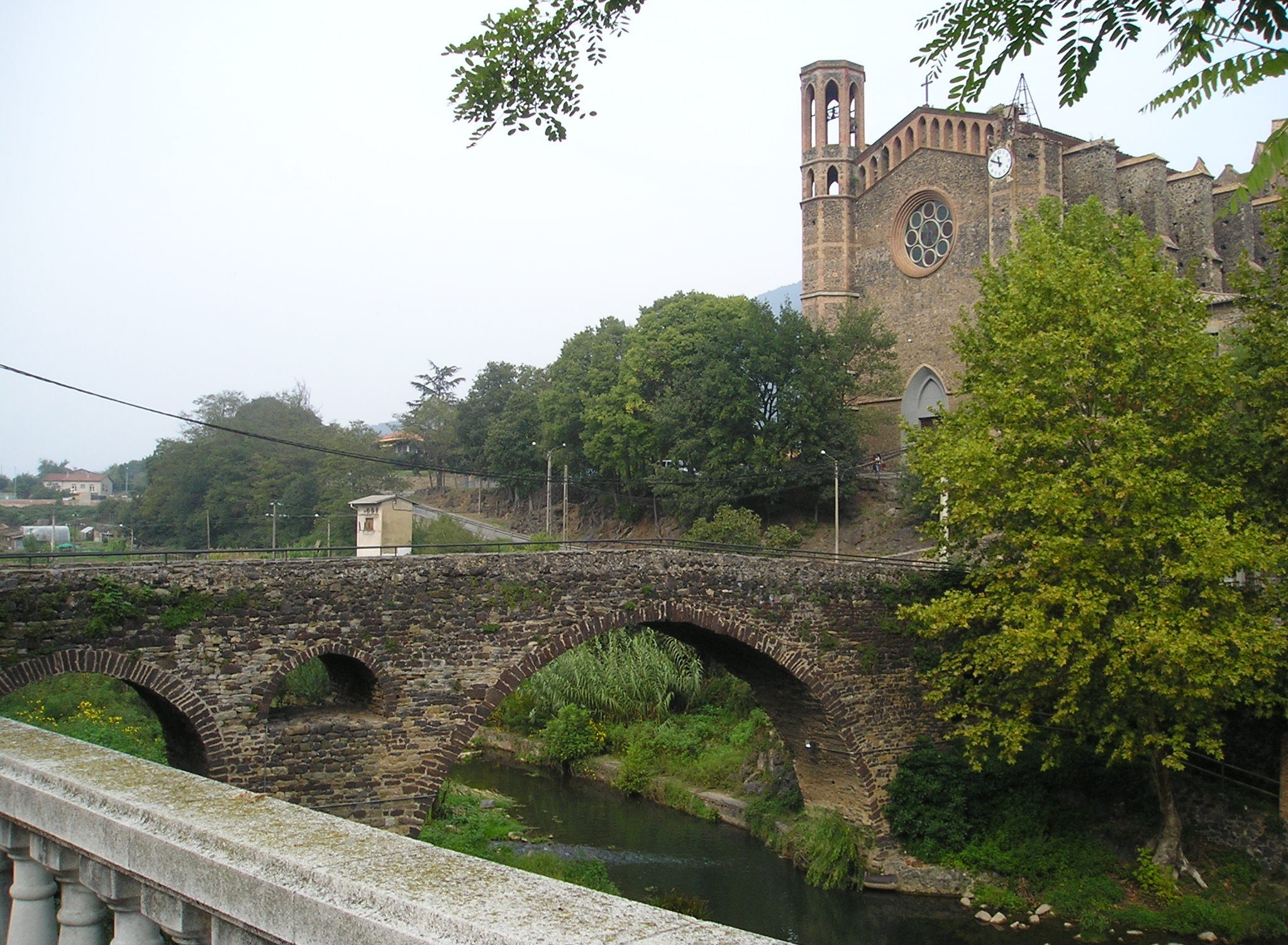 Medieval bridge in Sant Joan les Fonts (Catalonia)